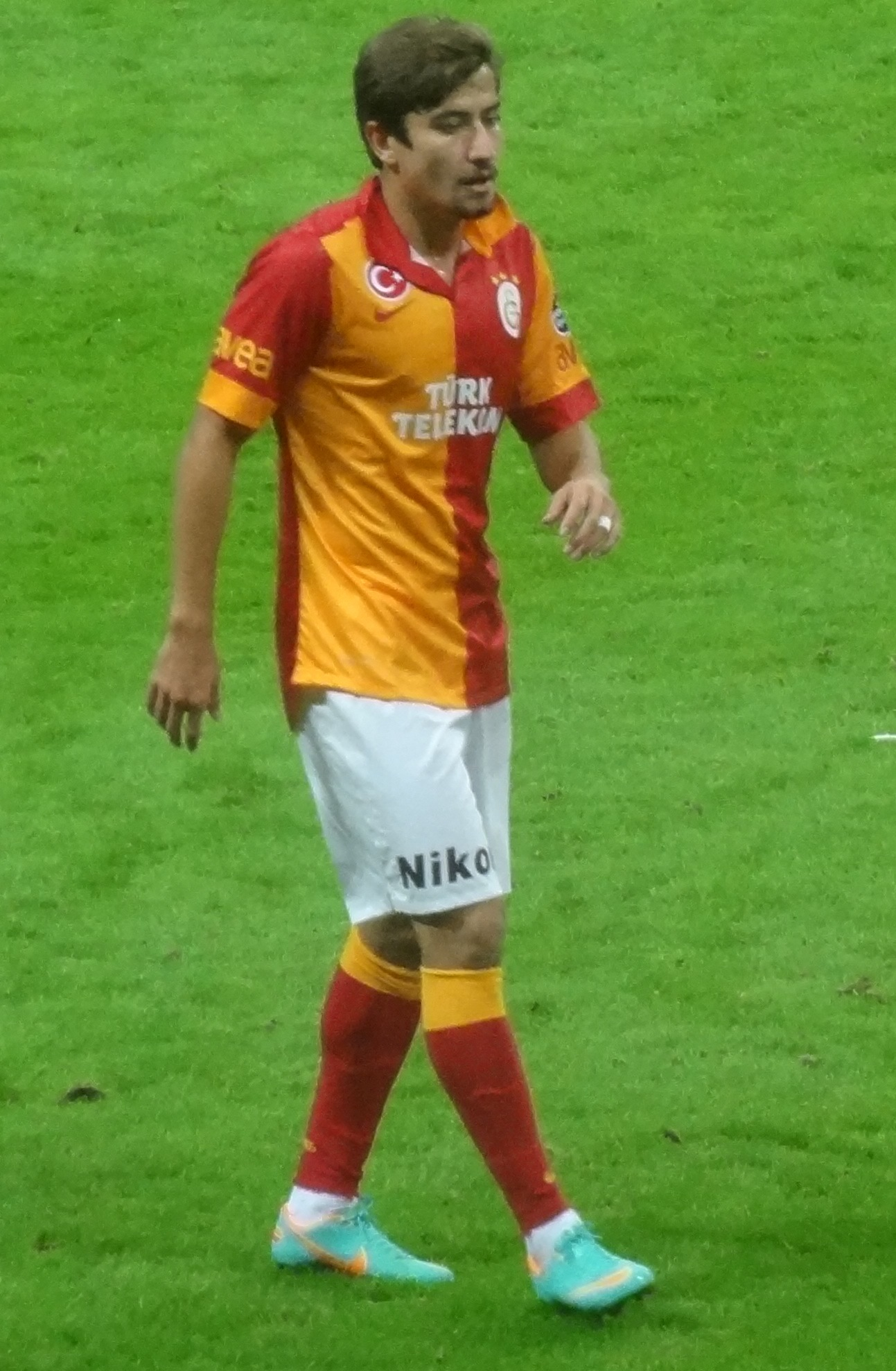 Aydın vs Akhisar